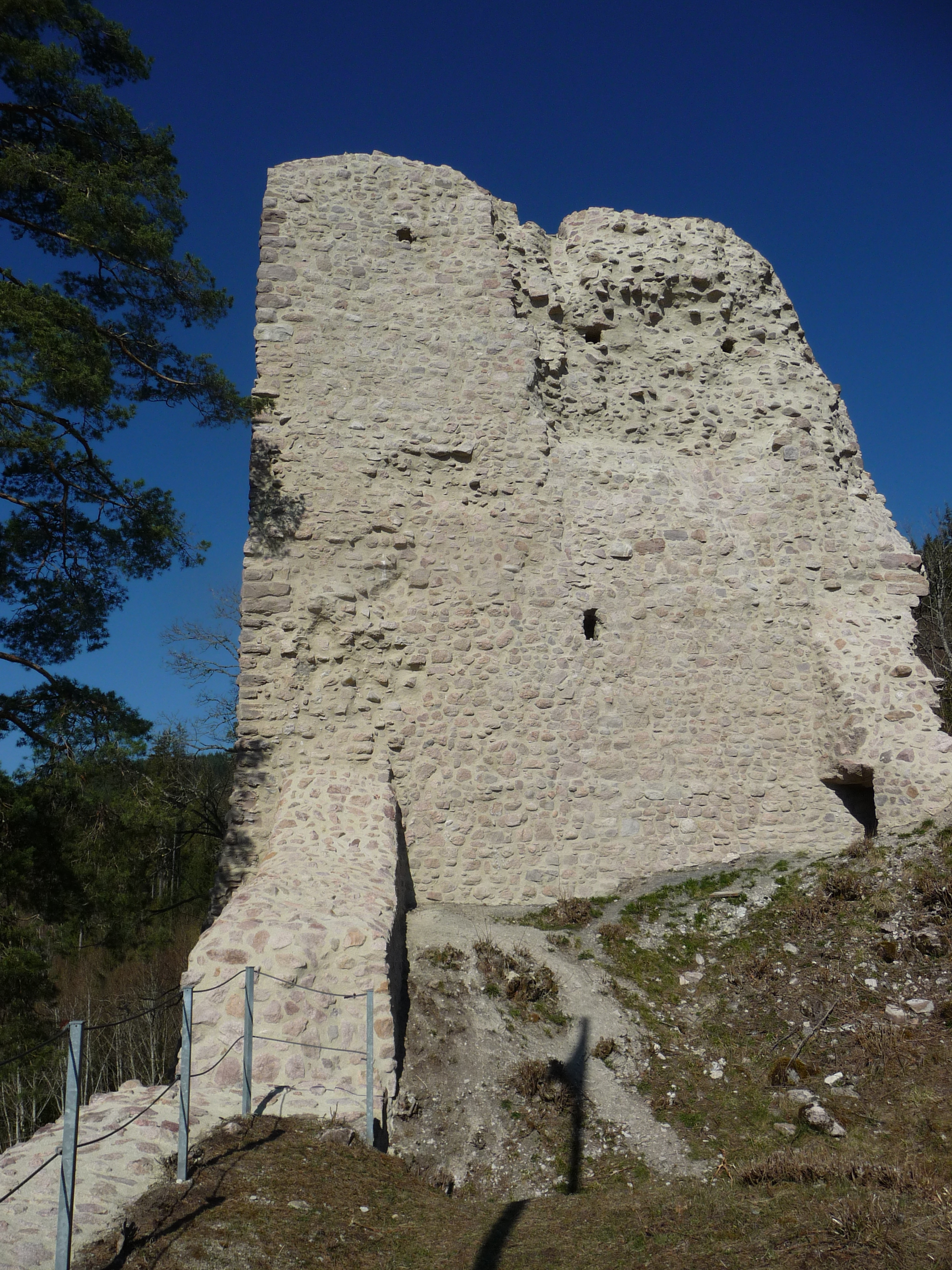 Der Innenhof der Burg Neu-Fürstenberg bei Hammereisenbach